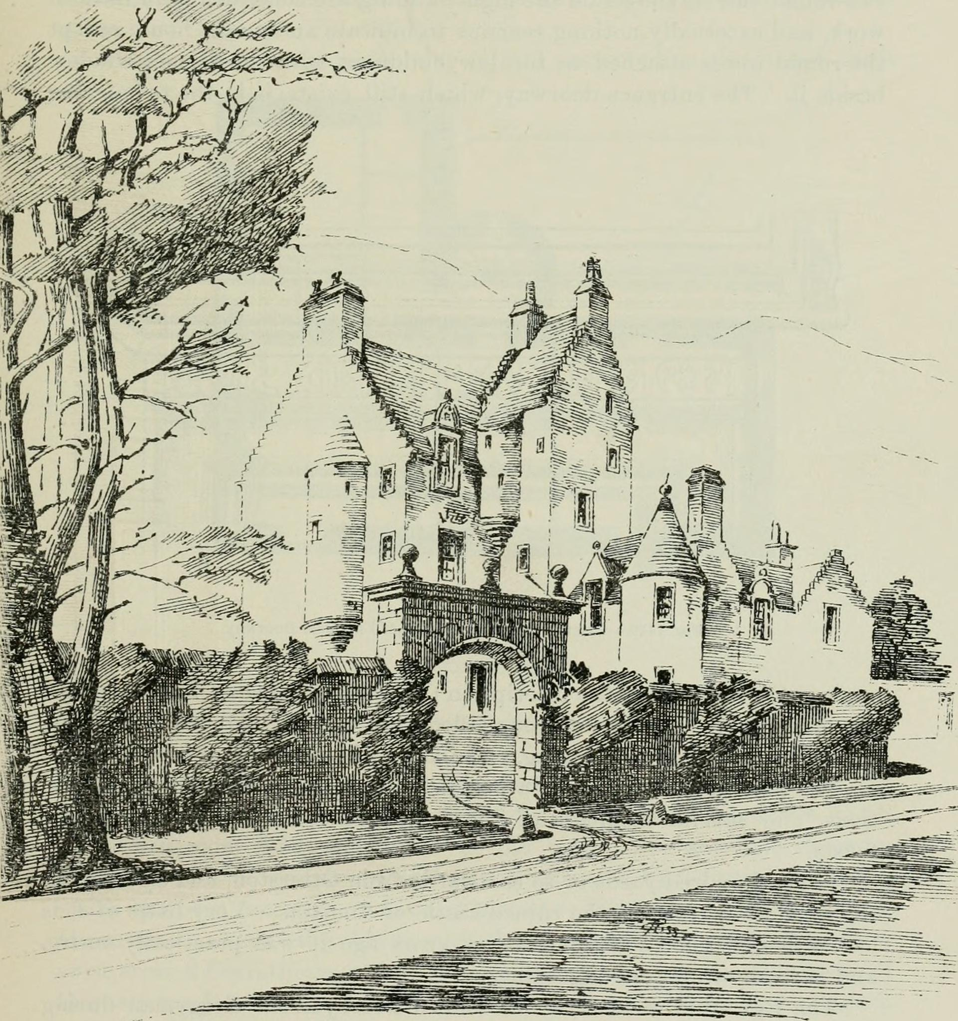 Title: The castellated and domestic architecture of Scotland, from the twelfth to the eighteenth century Year: 1887 (1880s) Authors: MacGibbon, David, d. 1902 Ross, Thomas, 1839-1930 Subjects: Architecture Architecture, Domestic Castles Publisher: Edinburgh : D. Douglas Text Appearing Before Image: OTTERSTON AND COUSTON CASTLES,* Fifeshire. Otterston is situated in the parish of Dalgetty, about two miles north-east from Inverkeithing. It occupies a secluded position on the margin Text Appearing After Image: Fig. 1448.—Otterston Castle. View from North-East. * We have to "thank Mr. Lyon for a pencil sketch of Otterston Castle, made in 1850", before it was altered, from which the accompanying view is copied. FOURTH PERIOD 342 — OTTERSTON AND COUSTON of a small loch of the same name, surrounded by gentle eminences abundantly clothed with trees. The building was a very picturesque one, and extremely characteristic of an old Scottish mansion-house, as will be seen from the View (Fig. 1448); but, unfortunately, about 1851 the proprietor pulled down certain portions and built a large addition to the east end, greatly increasing the accommodation of the house, but sacrificing its antique character. The round-arched entrance gateway (seen in the Sketch) is gone; the two round turrets shown on the high building are concealed with modern work, and externally nothing remains to indicate an ancient house except the round tower attached to the low buildings, with the dormer window beside it. The entrance